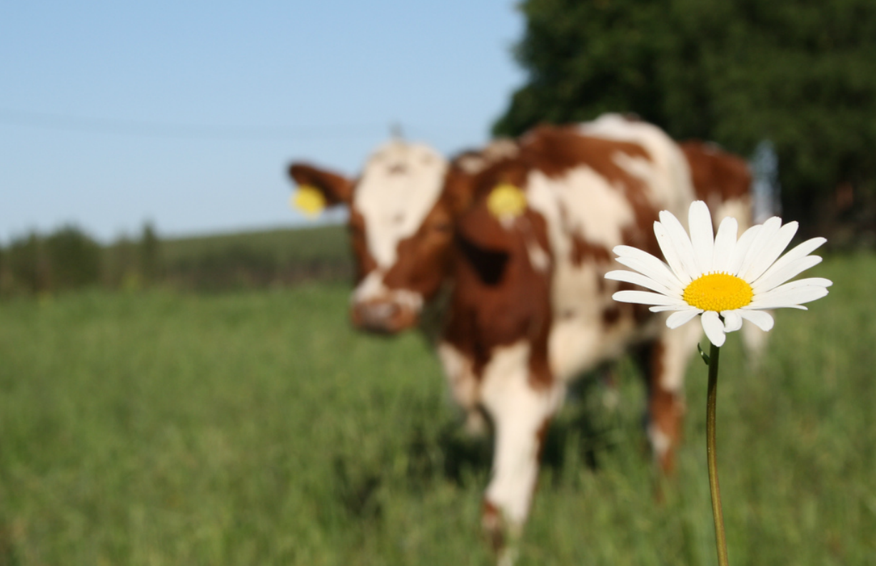 Leucanthemum vulgare and a cow in Hokkasenaho, Kyyjärvi, Finland